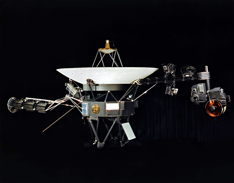 NASA photograph of one of the two identical Voyager space probes Voyager 1 and Voyager 2 launched in 1977. The 3.7 metre diameter high-gain antenna (HGA) is attached to the hollow ten-sided polygonal body housing the electronics, here seen in profile. The Voyager Golden Record is attached to one of the bus sides. The angled square panel below is the optical calibration target and excess heat radiator. The three radioisotope thermoelectric generators (RTGs) are mounted end-to-end on the left-extending boom. One of the two planetary radio and plasma wave antenna extends diagonally left and down, the other extends to the rear, mostly hidden here. The compact structure between the RTGs and the HGA are the high-field and low-field magnetometers (MAG) in their stowed state; after launch an Astromast boom extended to 13 metres to distance the low-field magnetometers. The instrument boom extending to the right holds, from left to right: the cosmic ray subsystem (CRS) above and Low-Energy Charged Particle (LECP) detector below; the Plasma Spectrometer (PLS) above; and the scan platform that rotates about a vertical axis. The scan platform comprises: the Infrared Interferometer Spectrometer (IRIS) (largest camera at right); the Ultraviolet Spectrometer (UVS) to the right of the UVS; the two Imaging Science Subsystem (ISS) vidicon cameras to the left of the UVS; and the Photopolarimeter System (PPS) barely visible under the ISS. Suggested for English Wikipedia:alternative text for images: A space probe with squat cylindrical body topped by a large parabolic radio antenna dish pointing upwards, a three-element radioisotope thermoelectric generator on a boom extending left, and scientific instruments on a boom extending right. A golden disk is fixed to the body.